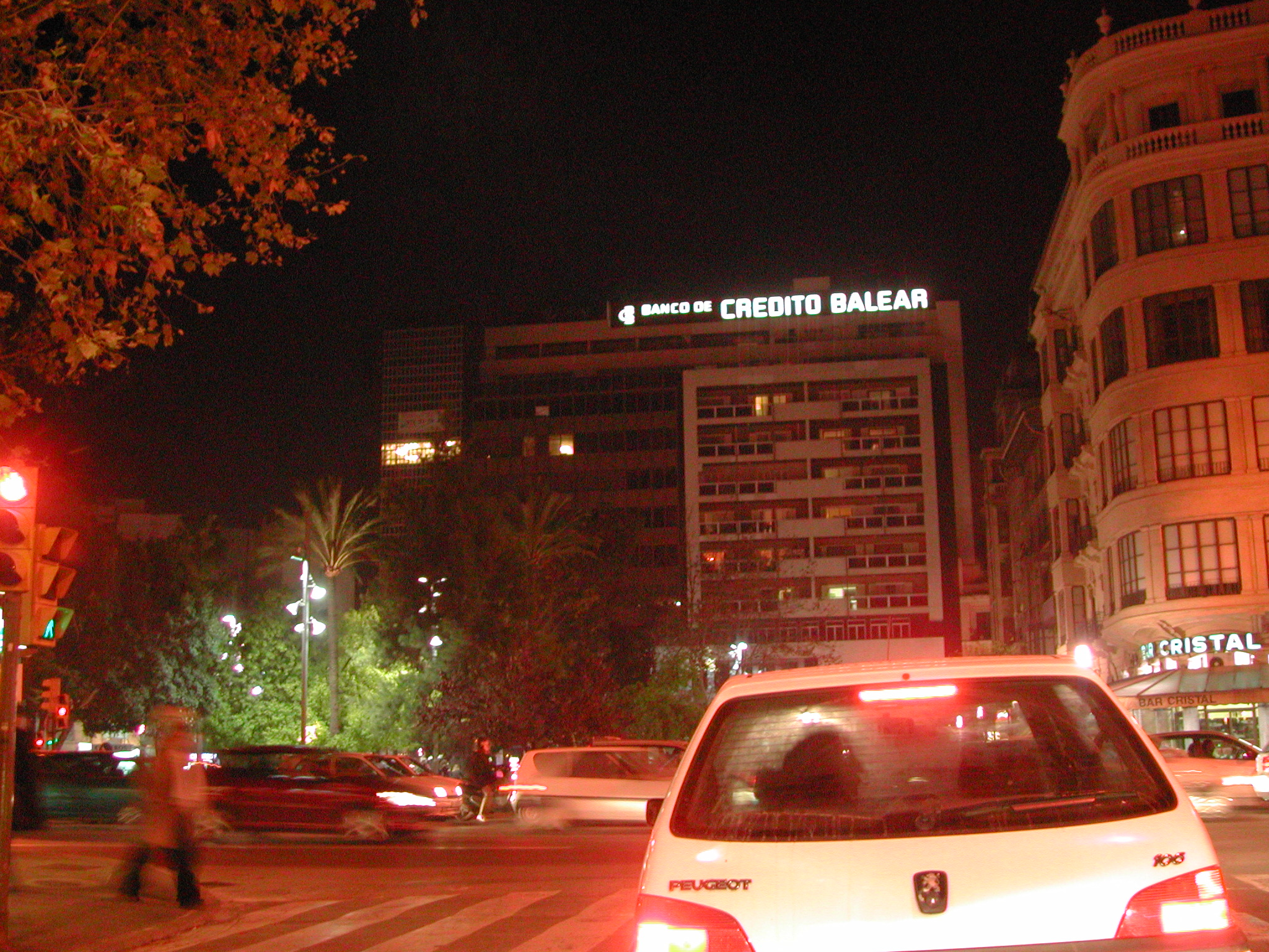 Credit Balear Bank headquarters Place Lloc/Place:Plaça d'Espanya, Palma